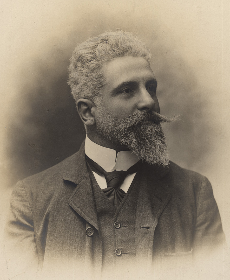 Portrait of Giuseppe Gallignani, composer (1851-1923). Photo by Varischi e Artico, Milano, before 1923.